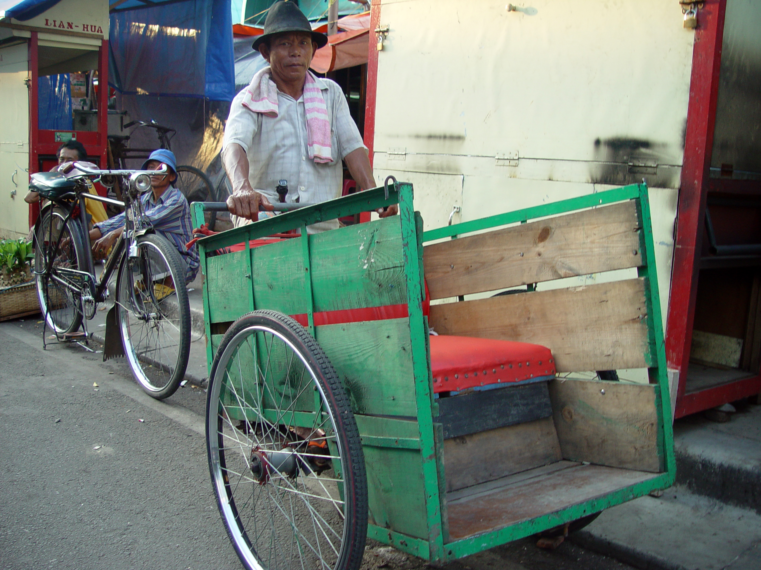 Wooden becak in the Glodok district in Jakarta Indonesia.